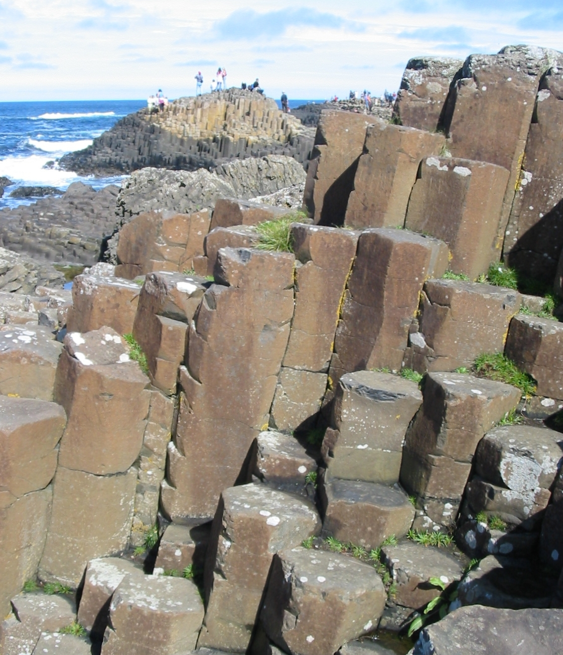 Giant's Causeway Nrf: Pont ès Giants